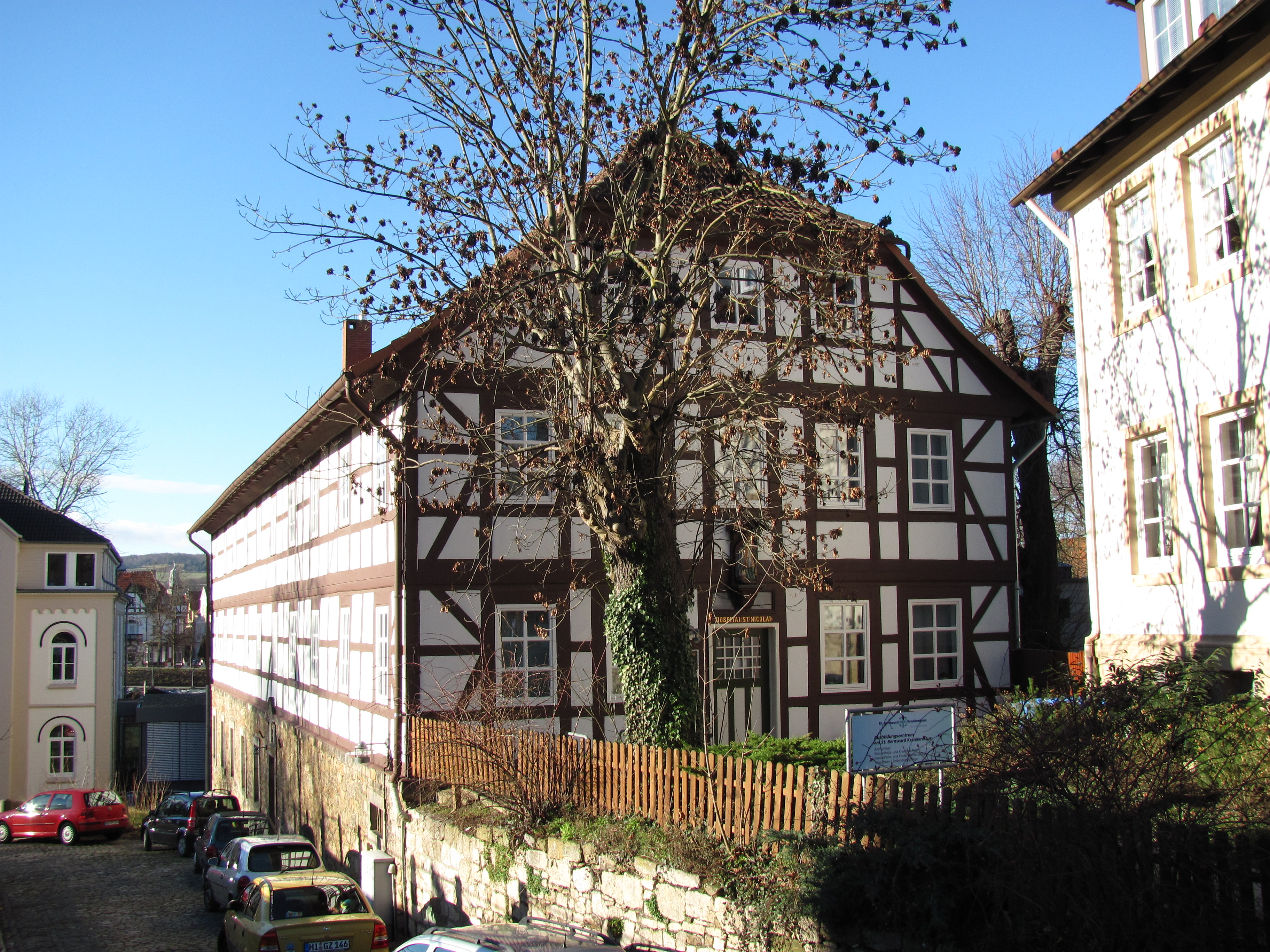 Former Hospital of the Five Wounds, built 1770, Hildesheim, Germany